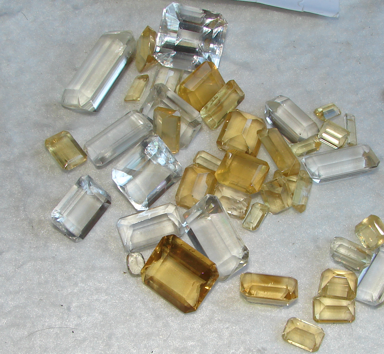 Calcite crystal cut from Minas Gerais, Brazil. Gem cutting by Afonso Marques